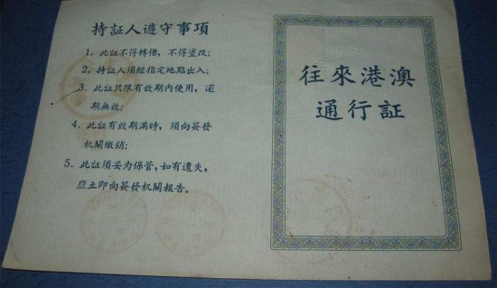 Two-way Permit in 1960s. 中文（中国大陆）: 1960年代的往来港澳通行证